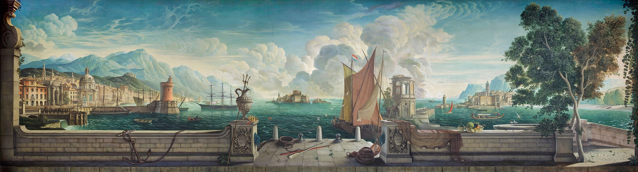 Dining Room Mural: Capriccio of a Mediterranean Seaport, with British and Italian Buildings, the Mountains of Snowdonia, and a Self Portrait Wielding a Broom